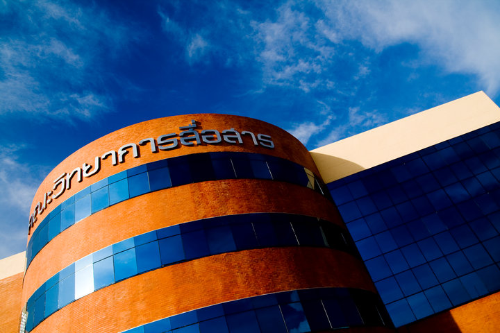 Thai school buildings. Faculty of Communication Sciences. Prince of Songkla University.